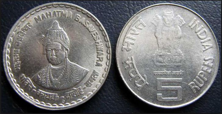 Basavanna on coin in india